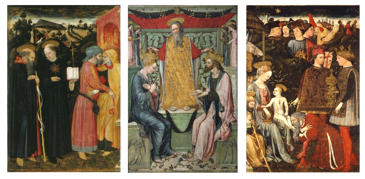 Triptych by Bonifacio Bembo, 1445 - 1450, side panels - Denver Art Museum, reconstruction